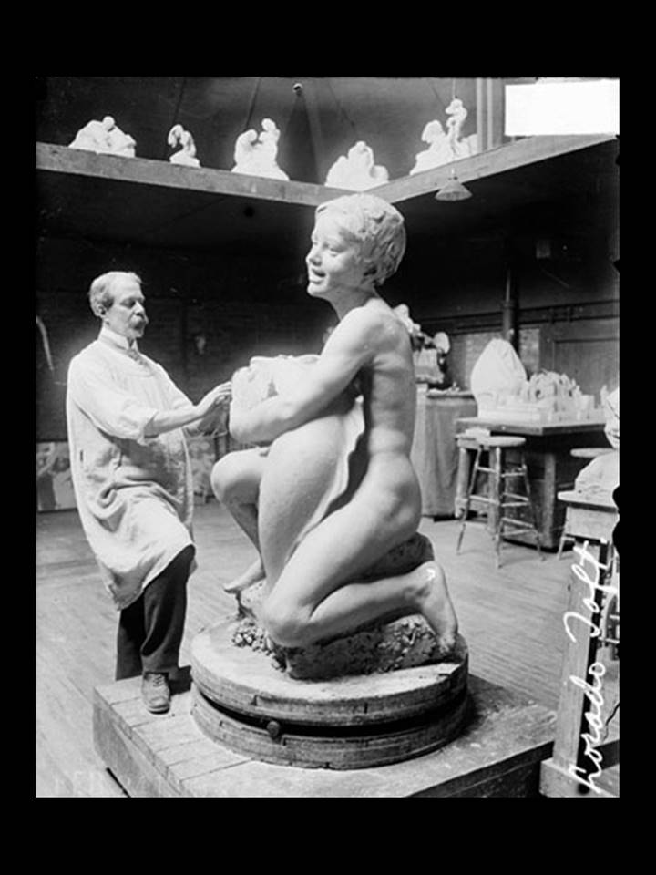 Lorado Taft at work on Fountain of Time in Lorado Taft Midway Studio in the Woodlawn community area of Chicago.